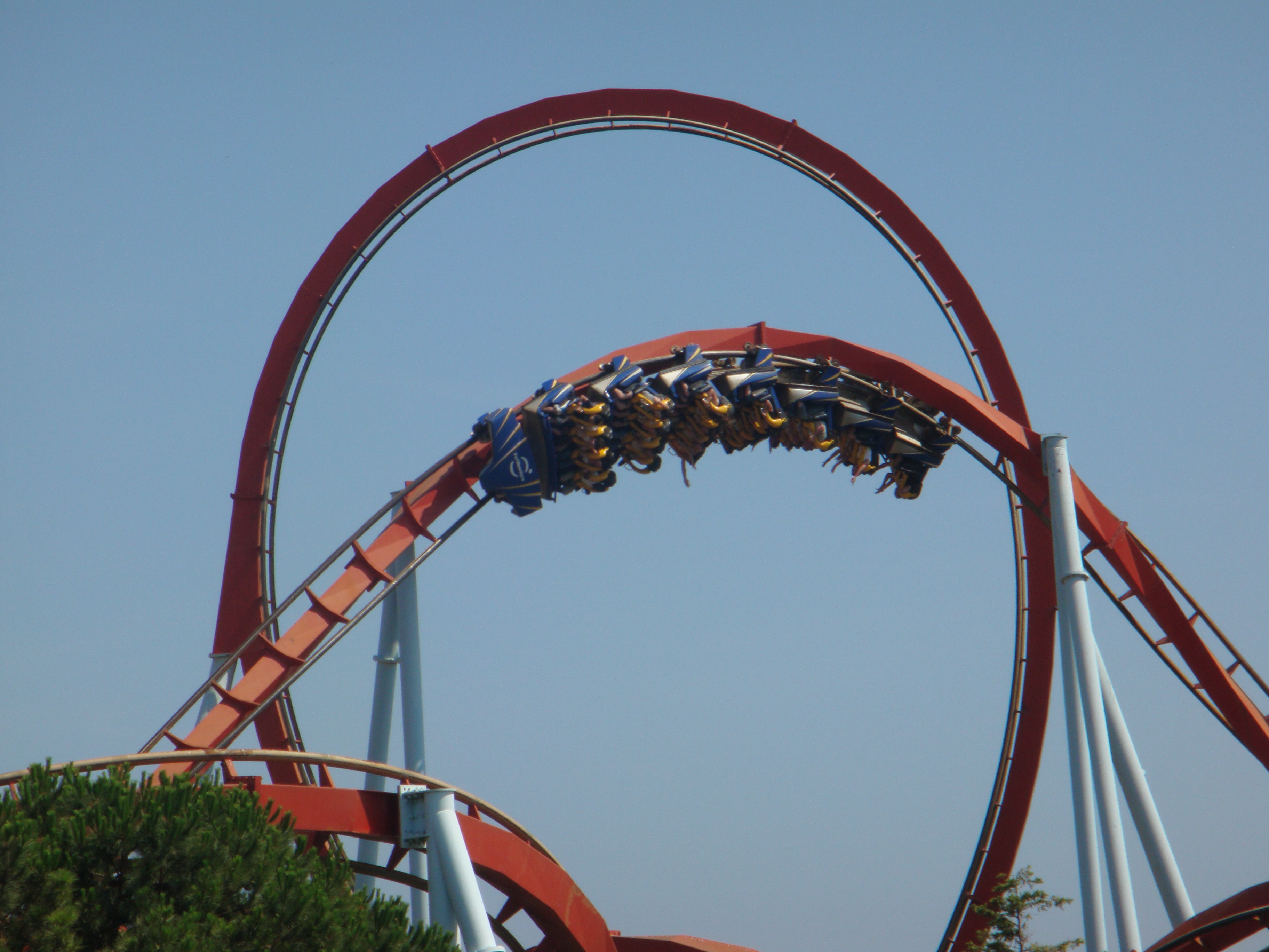 Zero-g roll at Dragon Khan in Port Aventura, Spain.